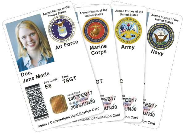 This image gives visual examples of CACs issued by different federal agencies.